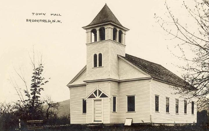 Town House, Brookfield, New Hampshire. It was built in the 1820s, with the bell tower added during the Victorian era.